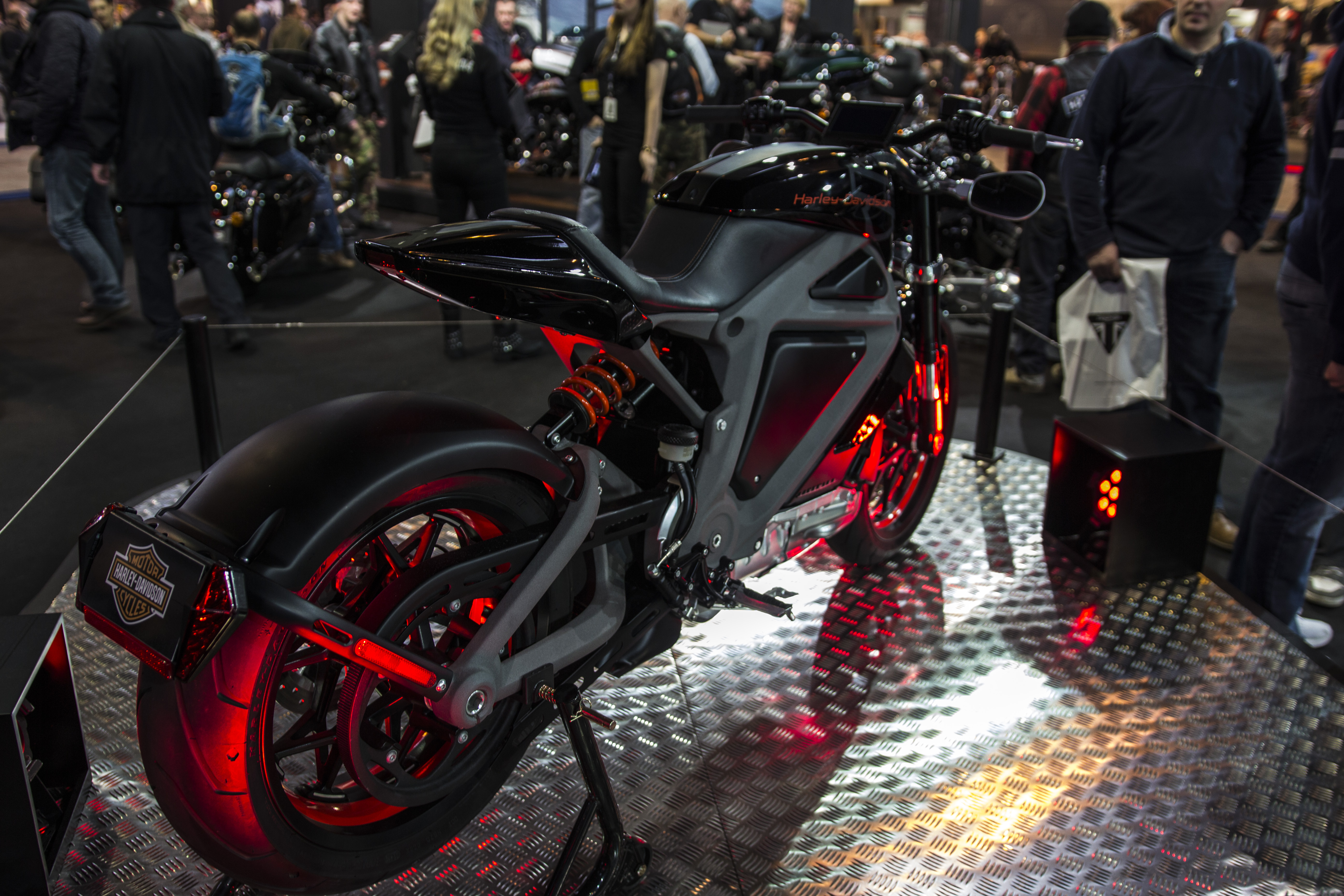 MCN Motorcycle Live NEC Birmingham November 25th 2014